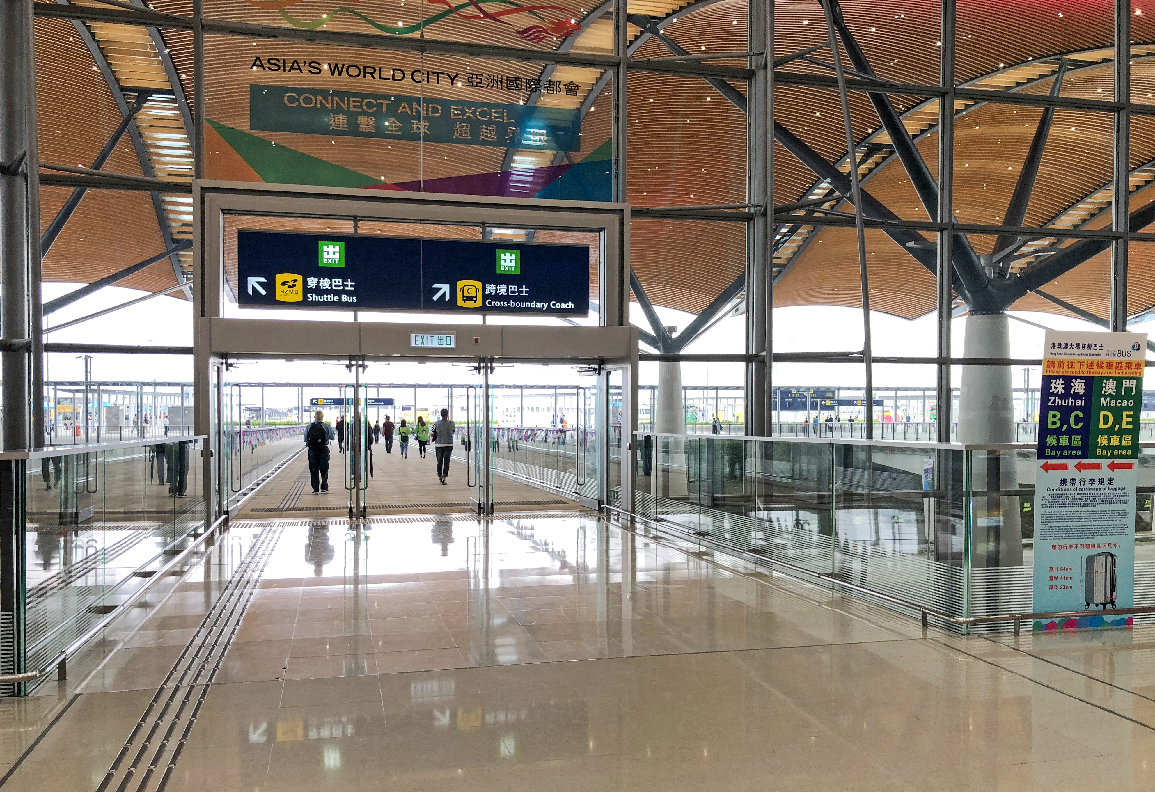 Why is there MTR exit signs? They should work better with MTRSong...